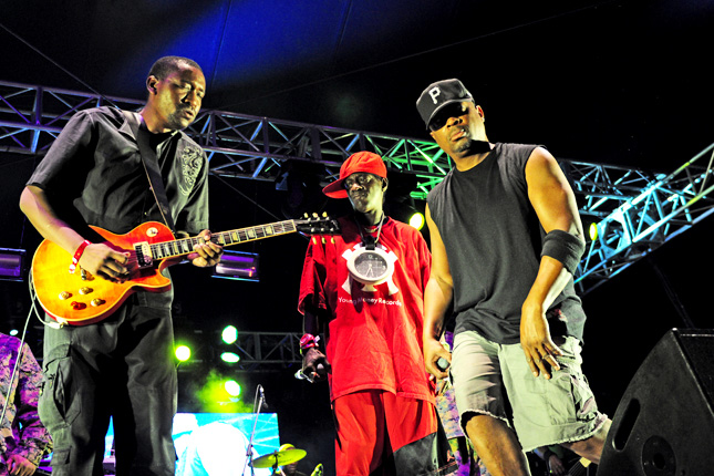 Southbound Festival 2011